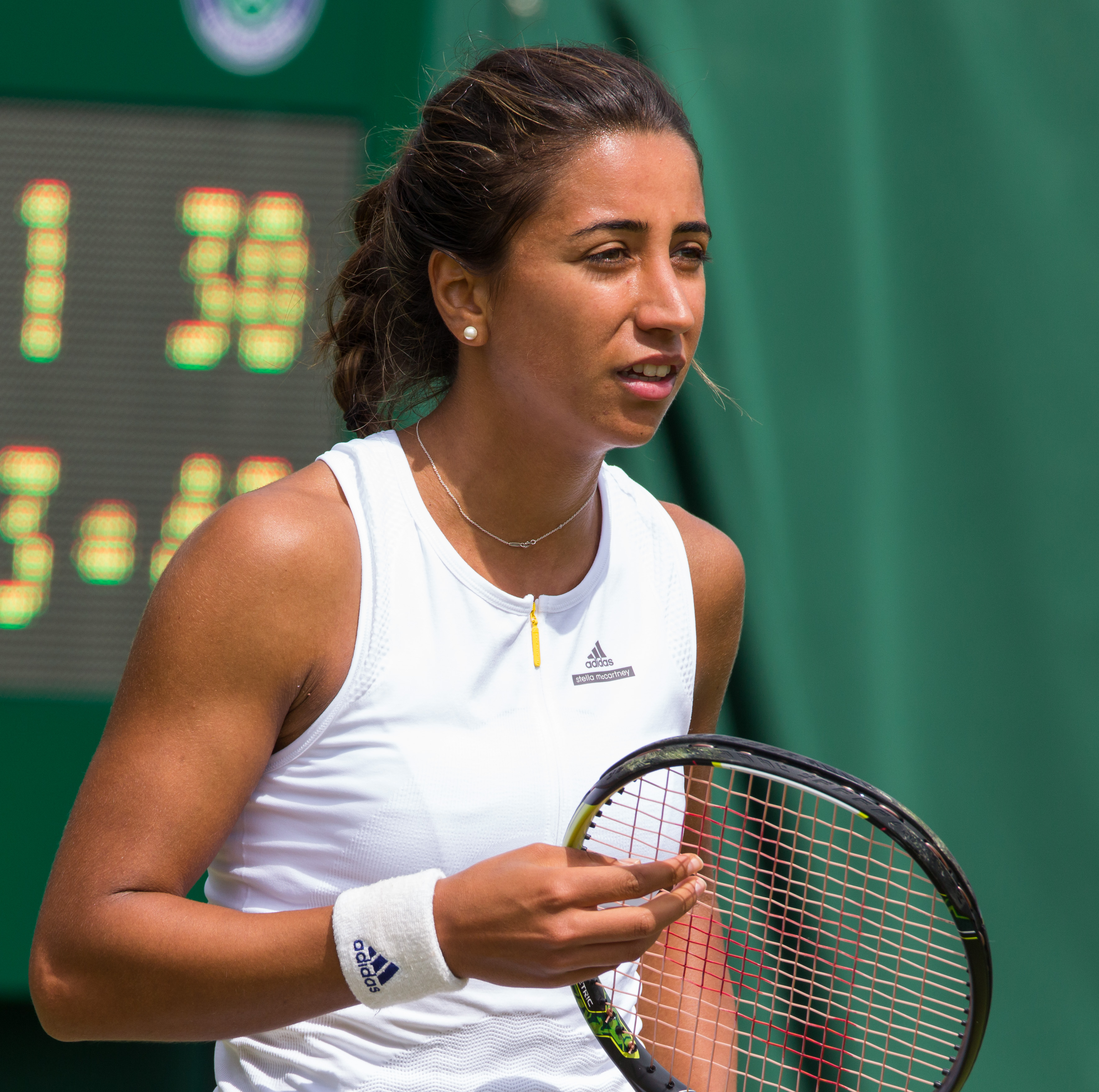 Çağla Büyükakçay competing in the first round of the 2015 Wimbledon Qualifying Tournament at the Bank of England Sports Grounds in Roehampton, England. The winners of three rounds of competition qualify for the main draw of Wimbledon the following week.